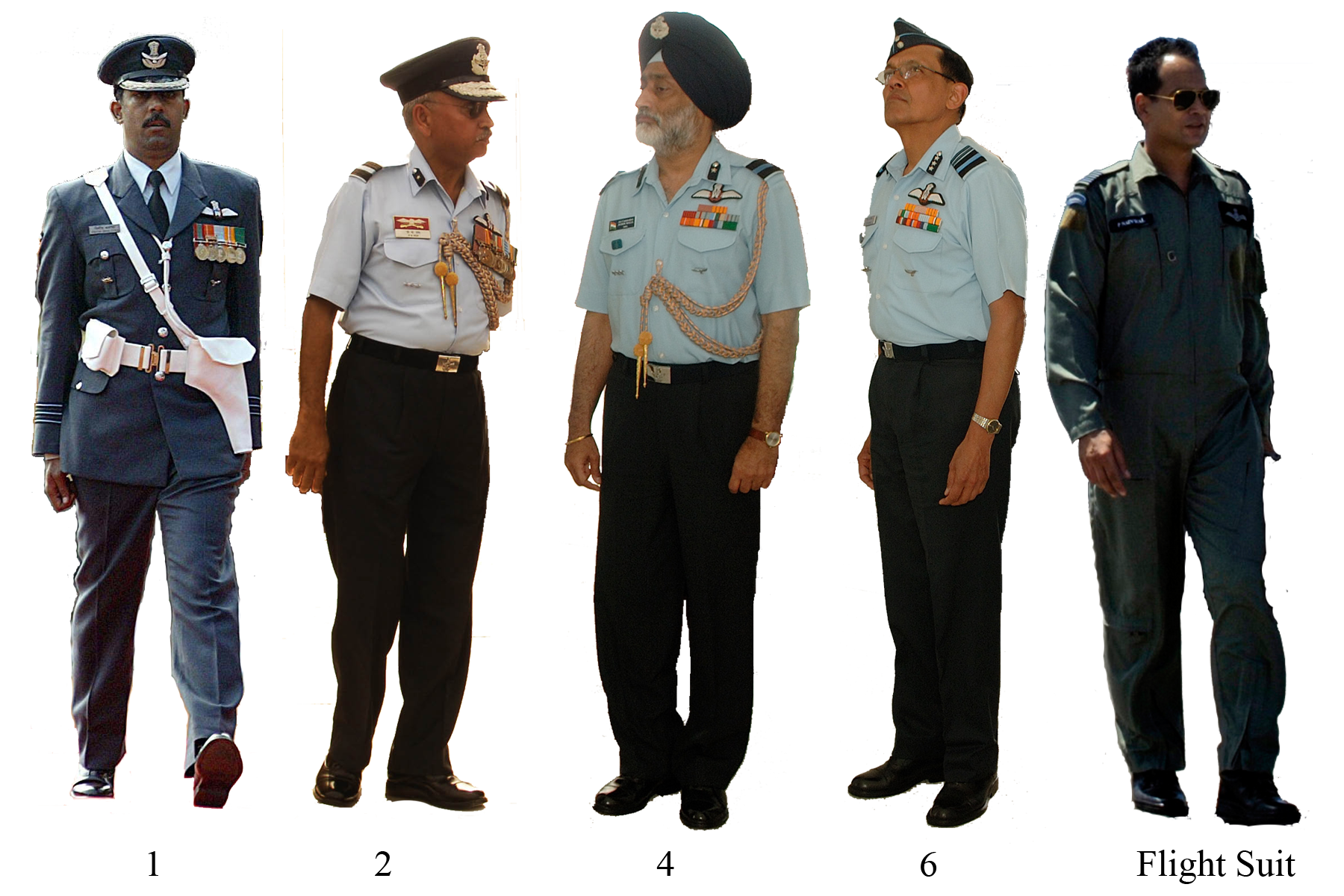 Uniforms of the Indian Air Force. An odd numbered dress is considered Winter Dress and an even numbered dress is considered Summer Dress. Aiguillette are worn by Air Officers. When an officer wears a No. 3 or No. 4 dress without the aiguillette, it is considered No. 3A or 4A dress respectively. Only the dresses in bold are displayed in the image. The complete list of dresses are available at the IAF Website. Dress No. 1 & 2— Ceremonial Dress No. 3 & 4— Semi-Ceremonial Dress No. 5 & 6— Working Dress.